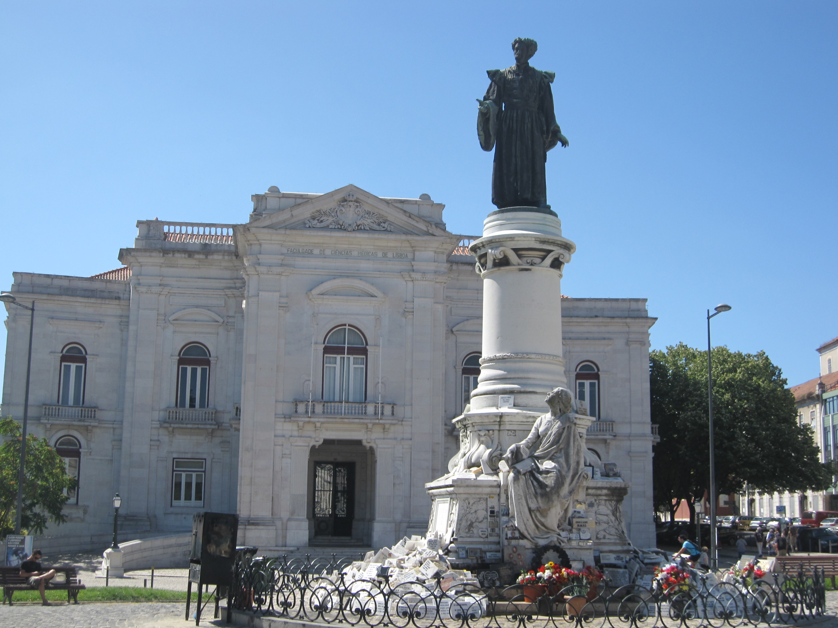 Campo dos Mártires da Pátria (literally, "Field of the Martyrs of the Homeland"), in Lisbon, facing the Medical School (NMS|FCM) and the statue of Dr. Sousa Martins.